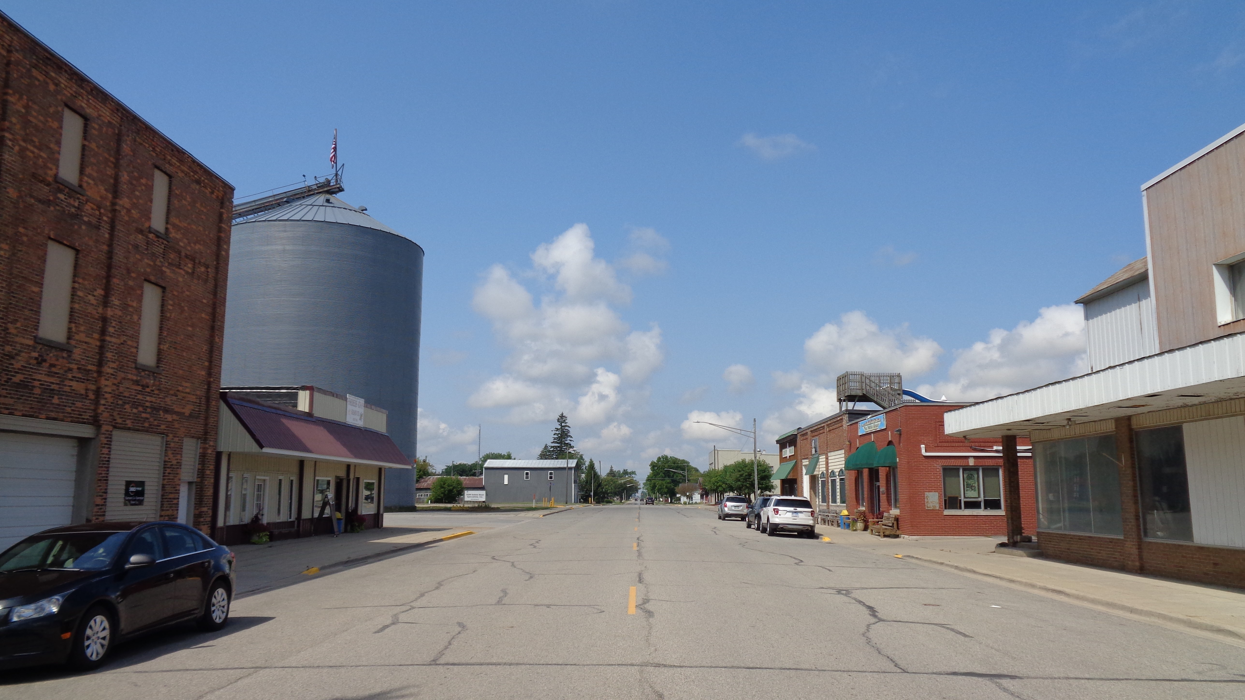 Depicted place: Kinde